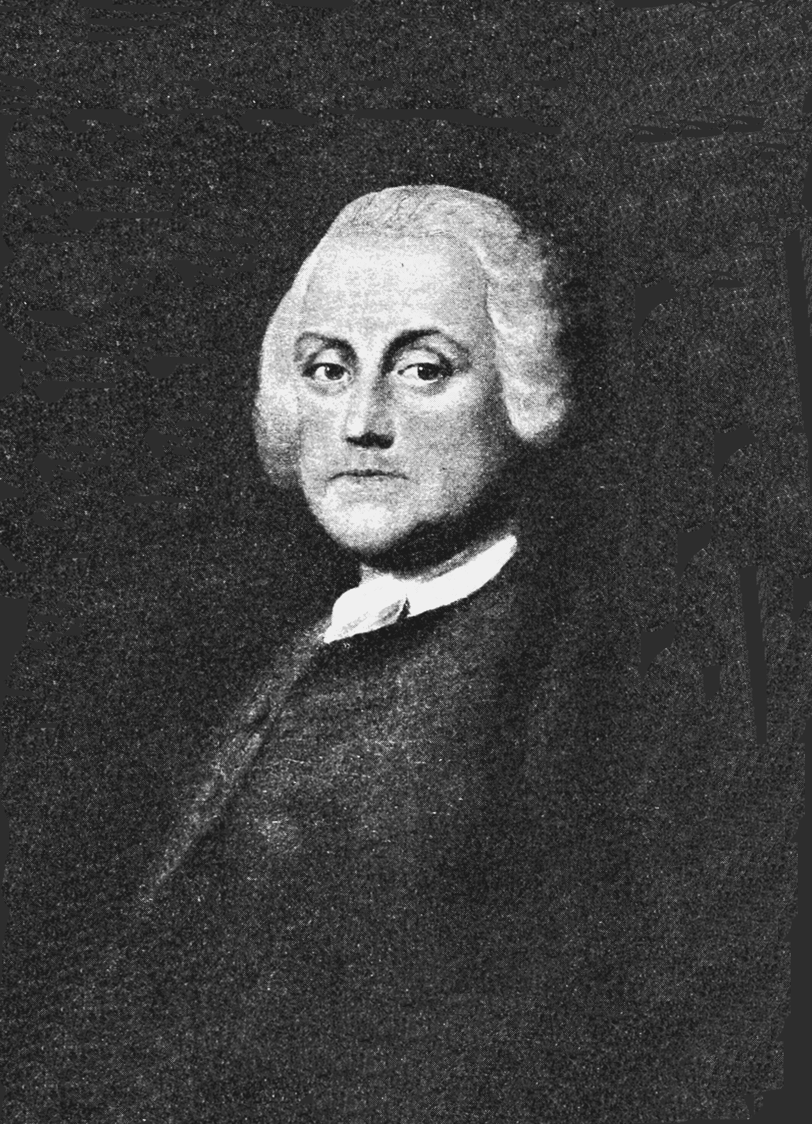 Portrait of Franklin painted by Benjamin Wilson in 1759